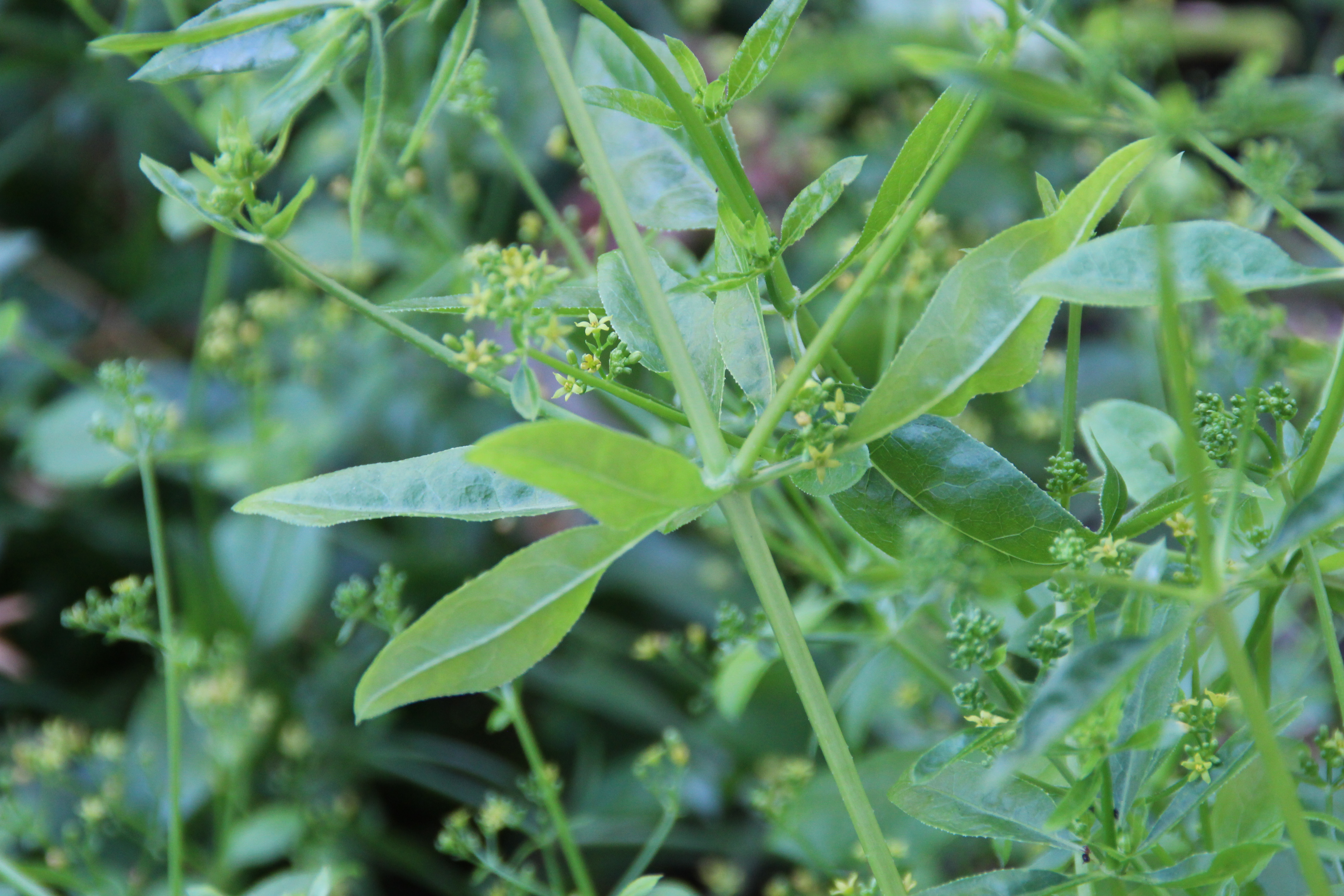 Garden of the castel of Dourdan, France.